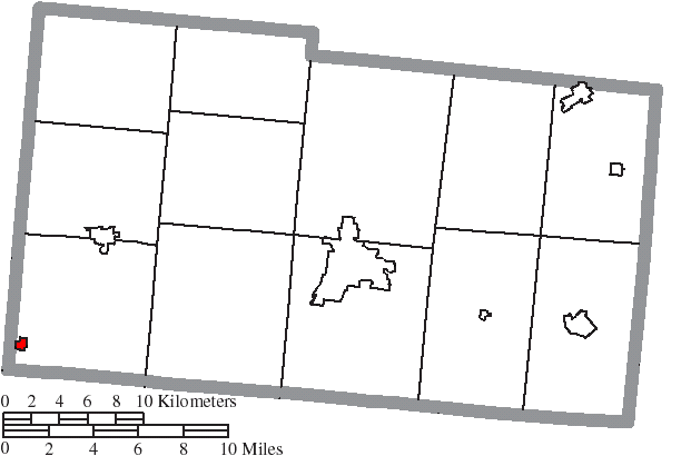 Map of the municipal and township boundaries of Champaign County, Ohio, United States, as of the 2000 census, with the location of the village of Christiansburg highlighted. Township borders are shown only in unincorporated areas in order to differentiate incorporated and unincorporated areas more clearly.